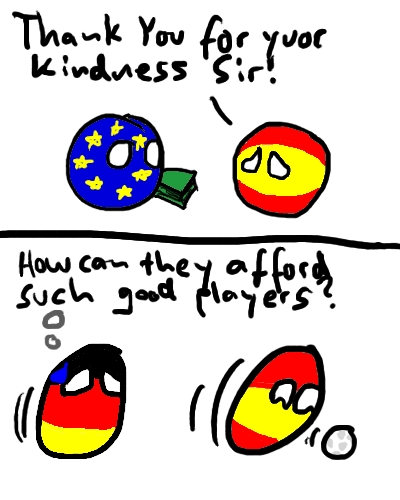 A Polandball comic commenting on the Spanish financial crisis.